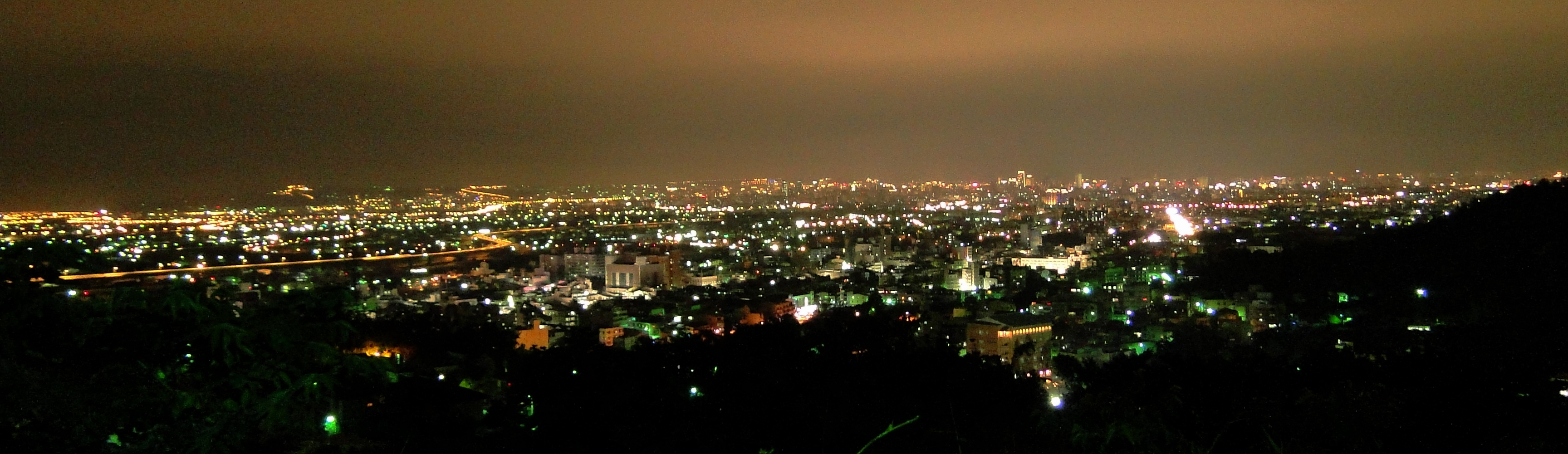 Taichung Metropolitan night view from WuFeng District中文（台灣）: 由霧峰區阿罩霧山瞭望的台中都會區夜景，左方高架為台74線霧峰段